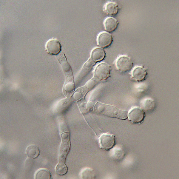 J Scott, personal photo, Scopulariopsis brevicaulis from air sample cultured on Modified Leonian's agar at room temperature and photographed in Nomarski Differential Interference Contrast Microscopy.